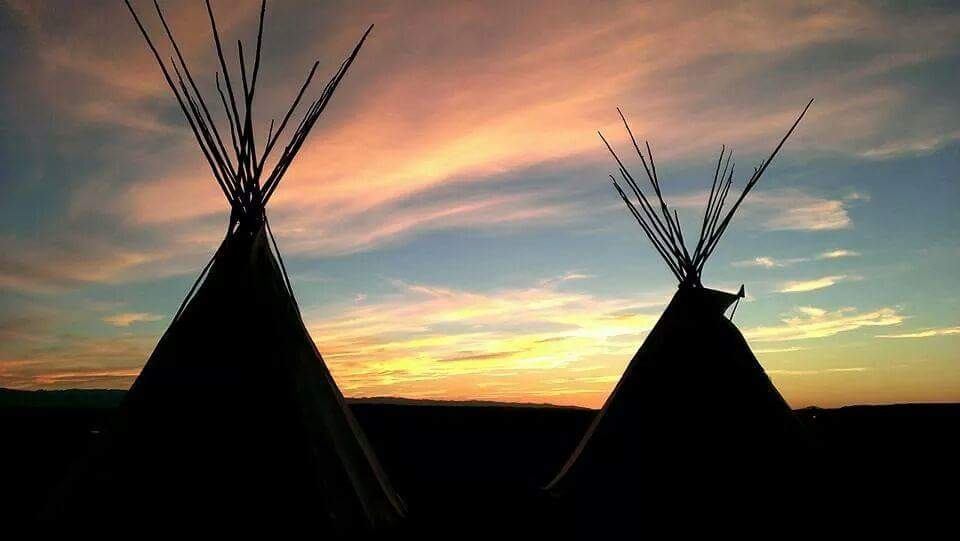 Sunset with tee pees on the Wind River Indian Reservation in Wyoming.